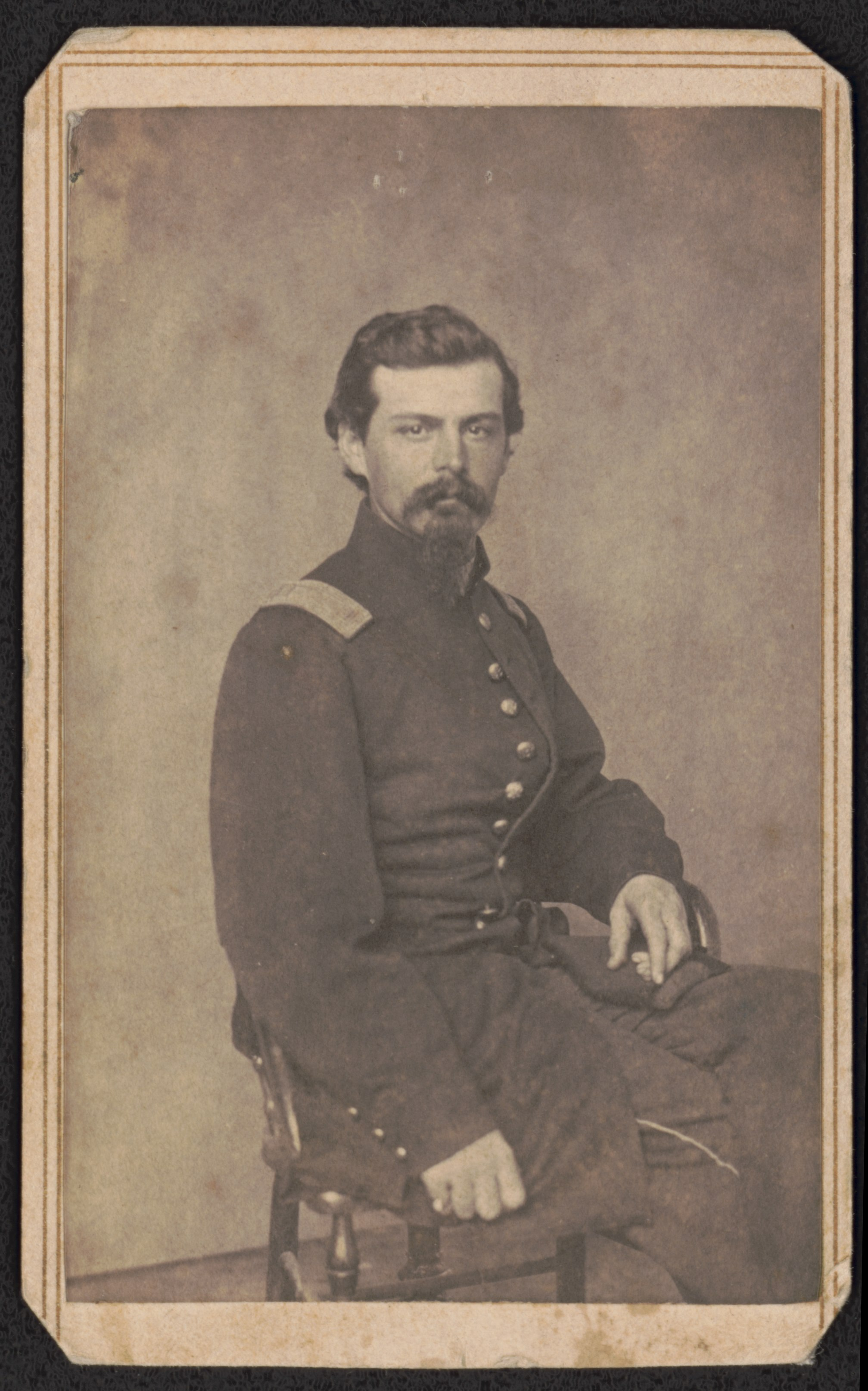 Title: Captain Frank J. Magee of Co. I, 76th Pennsylvania Infantry Regiment in uniform Abstract/medium: 1 photograph : albumen print on card mount ; mount 11 x 6 cm (carte de visite format)